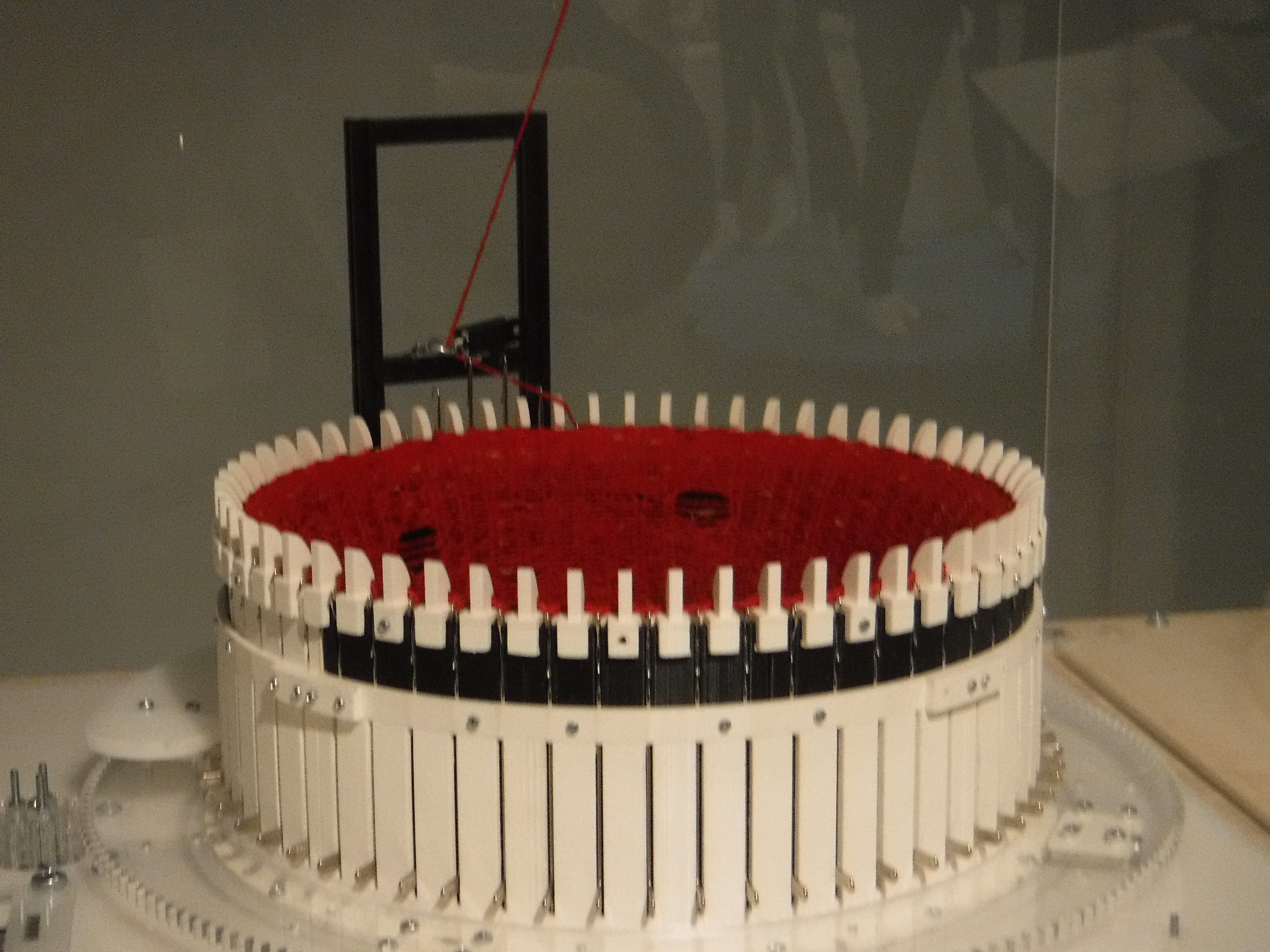 Circular Knitic, a circular knitting machine, displayed as part of the museum exhibition Second Skin: The Science of Stretch at the Chemical Heritage Foundation, on view from November 4, 2016 to May 13, 2017. The Circular Knitic is an Open Hardware make-your-own Knitting Machine developed by Varvara Guljajeva & Mar Canet using digital fabrication techniques such as 3D printing, laser cutting, makerbeam, and Arduino.